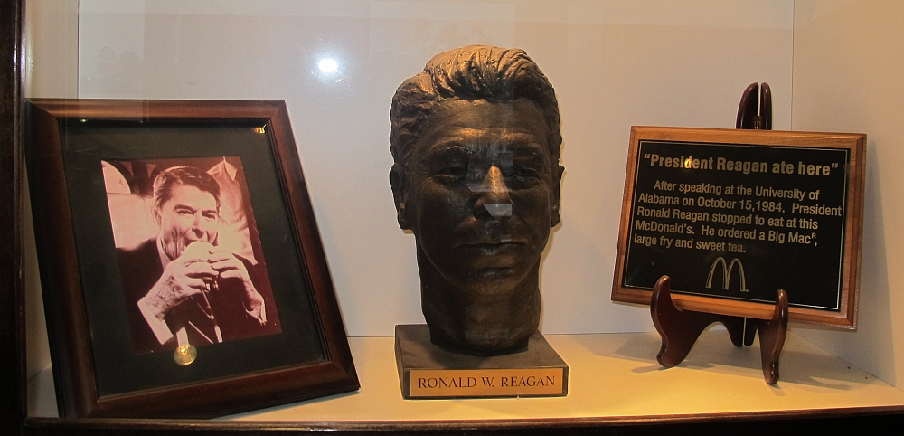 The McDonald's in Northport, Alabama commemorates President Ronald Reagan's visit.